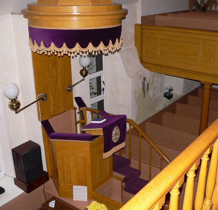 Lunna Kirk, Lunna, Mainland, Shetland, Scotland - interior